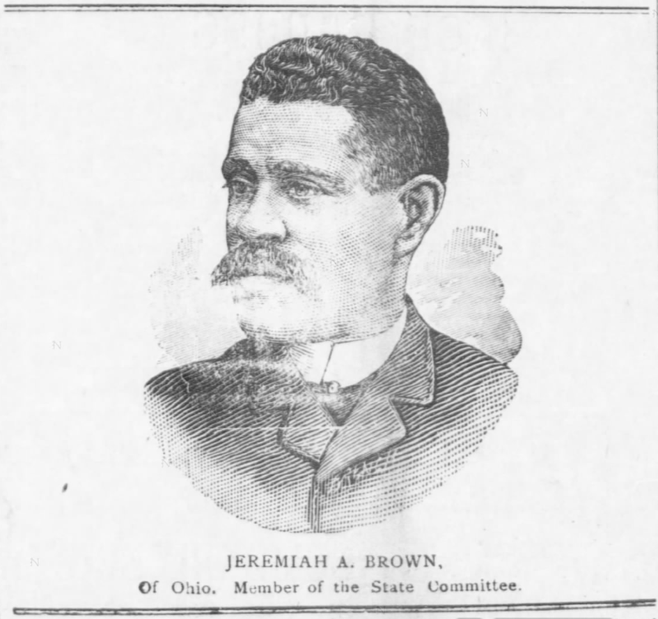 Sketch of Brown from Paper